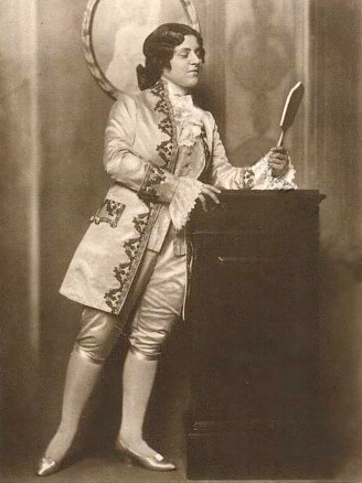 German actress Lotte Stein, photographed by Nicola Perscheid